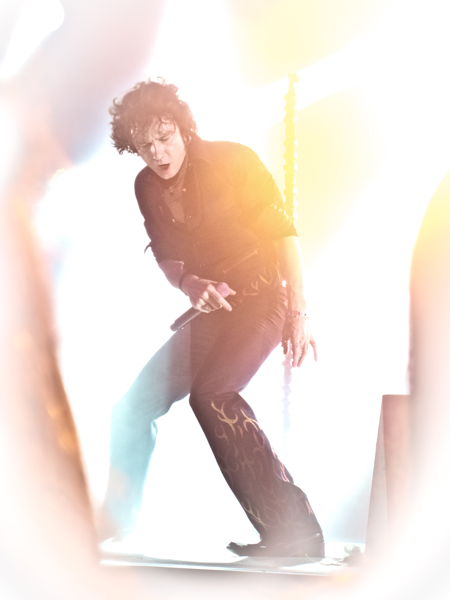 Enrique Bunbury during a concert in 2012.